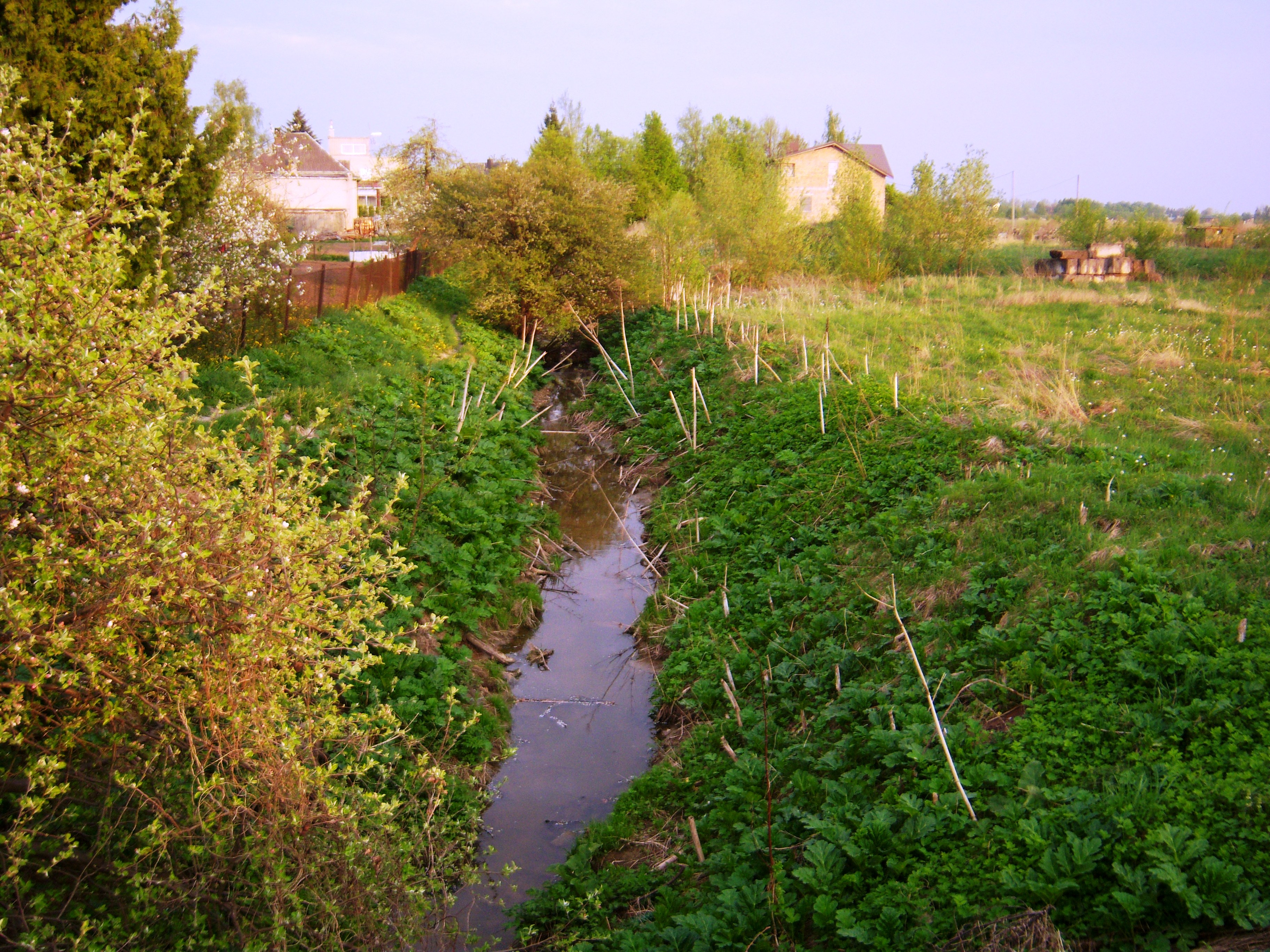 Tirkiliškiai, stream, Kaunas. Lithuania